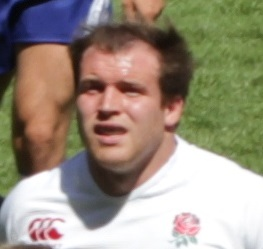 Henry Thomas playing for England in 2013